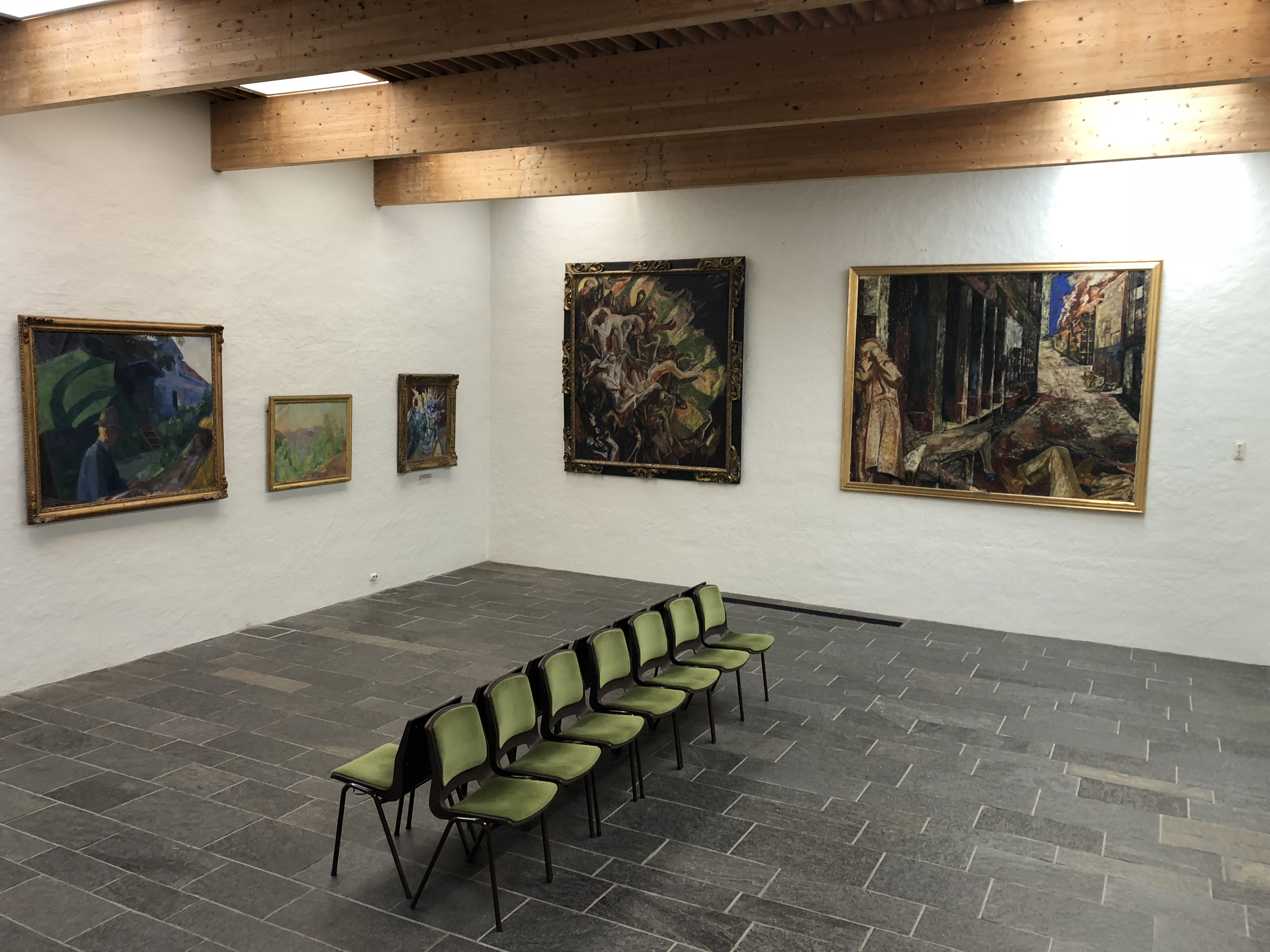 Interior of the art galleri "Holmsbu billedgalleri", Hurum, Norway